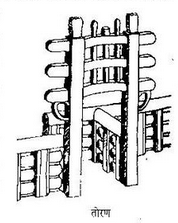 toran, Konkani vishvakosh